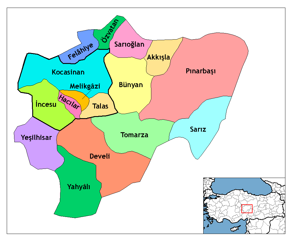 Map of the districts of Kayseri province in Turkey. Created by Rarelibra 21:59, 1 December 2006 (UTC) for public domain use, using MapInfo Professional v8.5 and various mapping resources. Edited by One Homo Sapiens Corrected text where İ, Ş, ı, ğ, or ş occurs in name. Source: [statoids-com]. Increased font size and enhanced color differences among adjacent districts. User:Sae1962 Marked the boundaries of the provincial centre, the city of Kayseri, with bold lines.